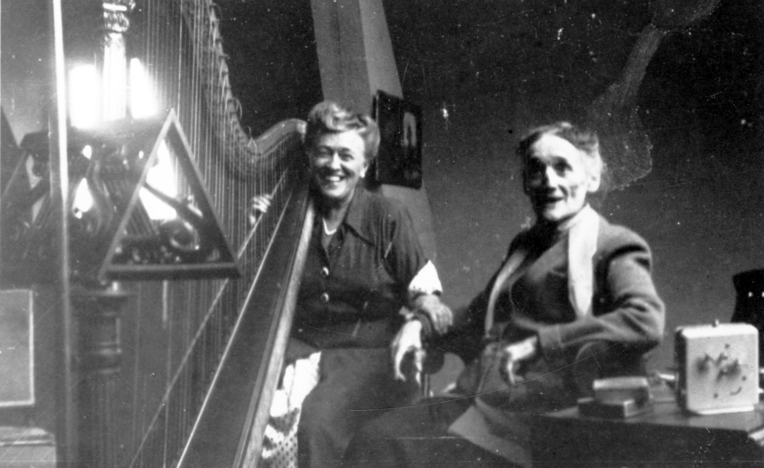 Mildred Dilling with Henriette Renie.